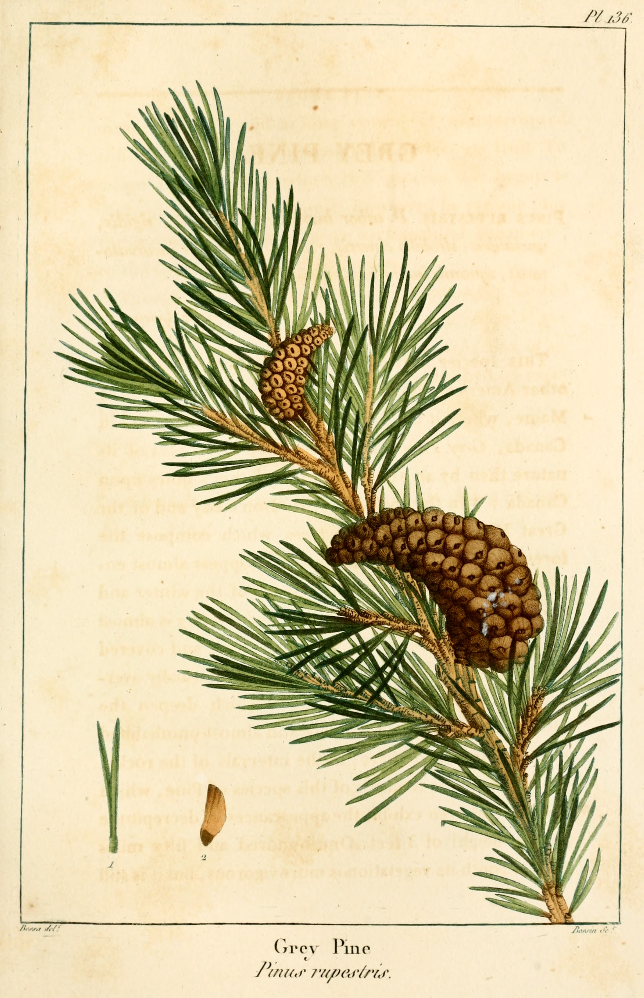 Plate 136 from The North American Sylva: Pinus banksiana.Original caption: Grey Pine. Pinus rupestris.